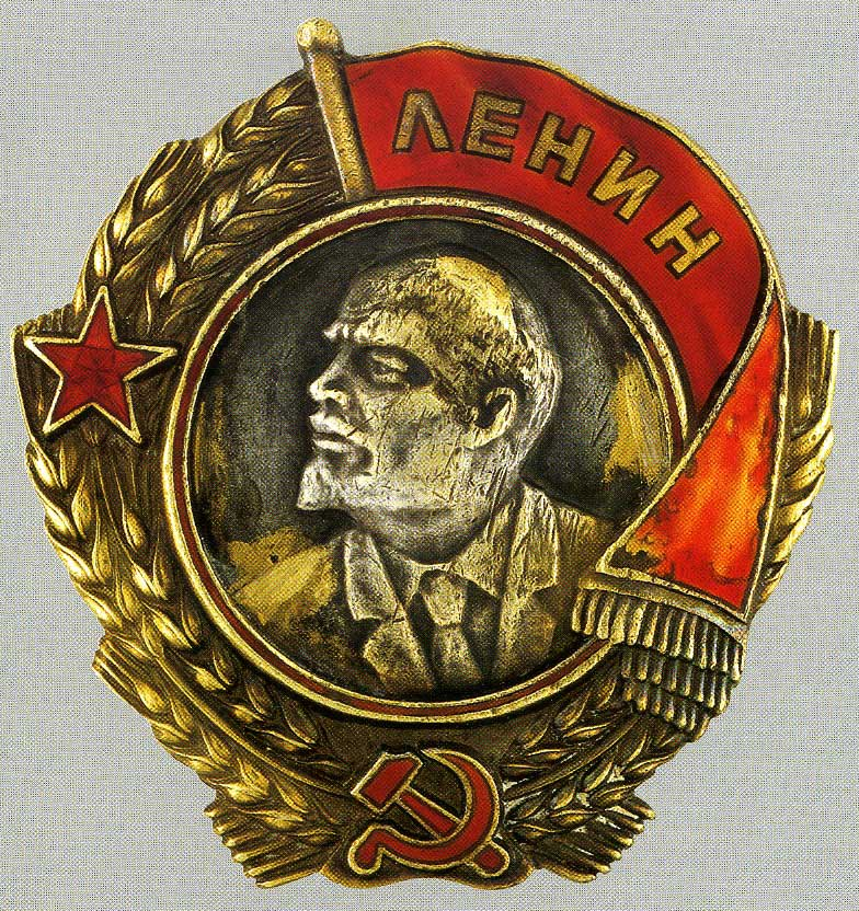 Order of Lenin II type